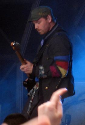 Jonny Buckland